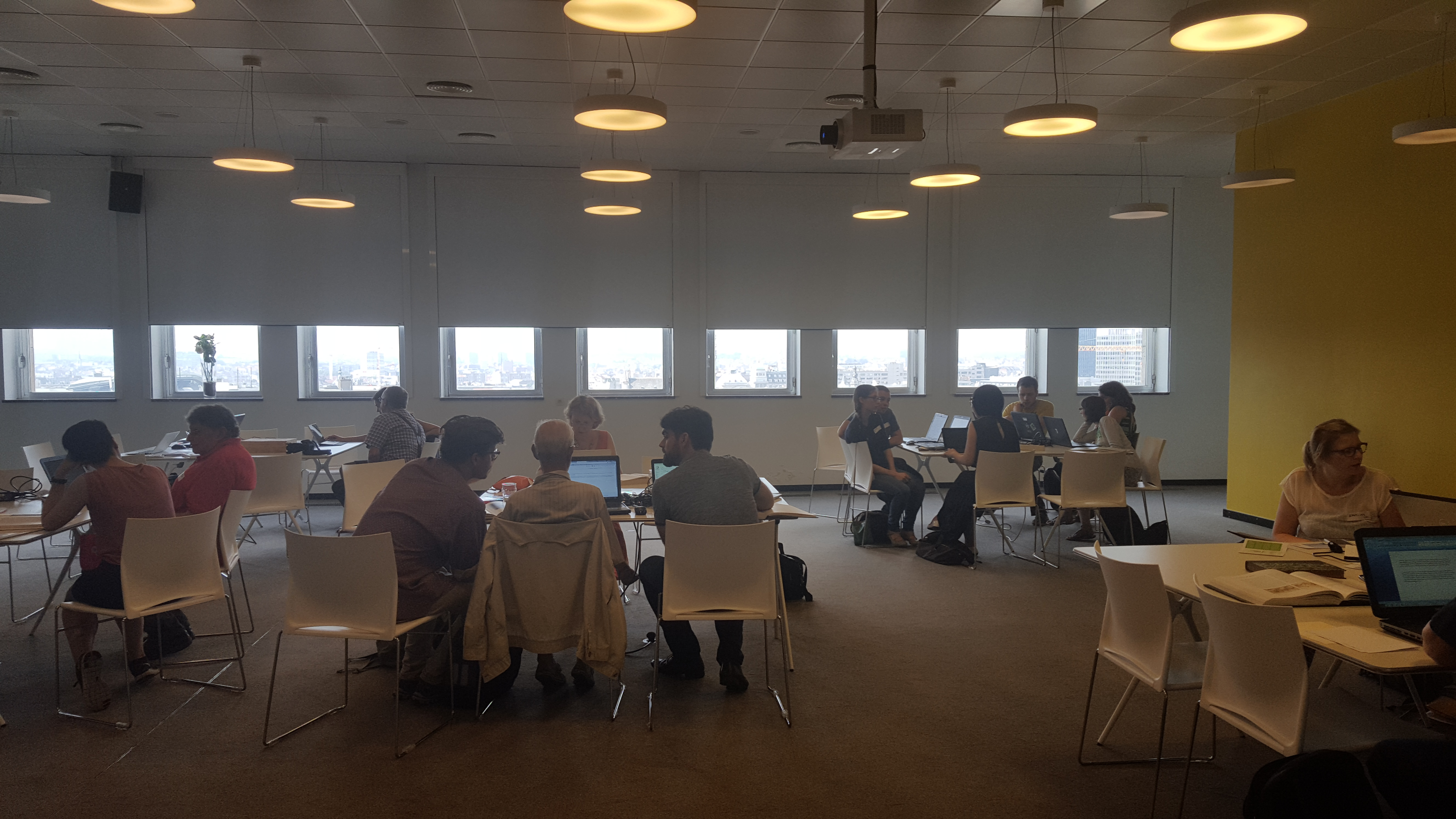 during the Wiki Loves Art session at the Royal Library of Belgium, Brussels